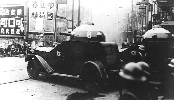 Shanghai Special Naval Landing force defending its position near Isis Theatre, Vickers-Crossley M25 armored cars (No.6 & No.4) advancing across the intersection of North Szechuen Road and Kewkong Road